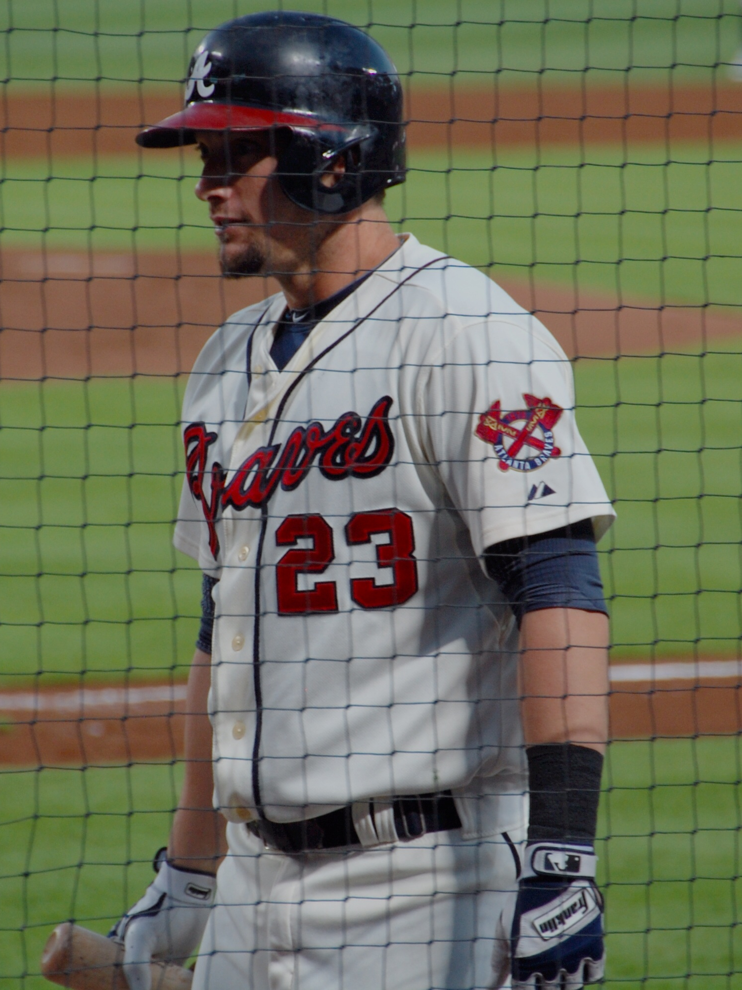 Chris Johnson